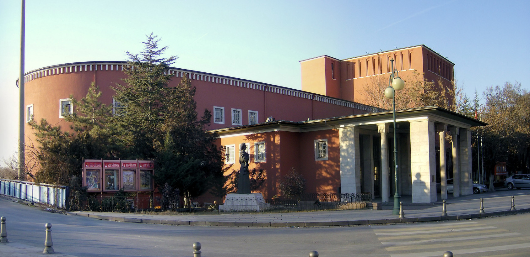 Ankara Opera House, main venue of the Turkish State Opera and Ballet in Ankara, Turkey